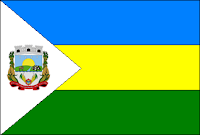 Flags of the city of Jacuizinho, Rio Grande do Sul, Brazil.